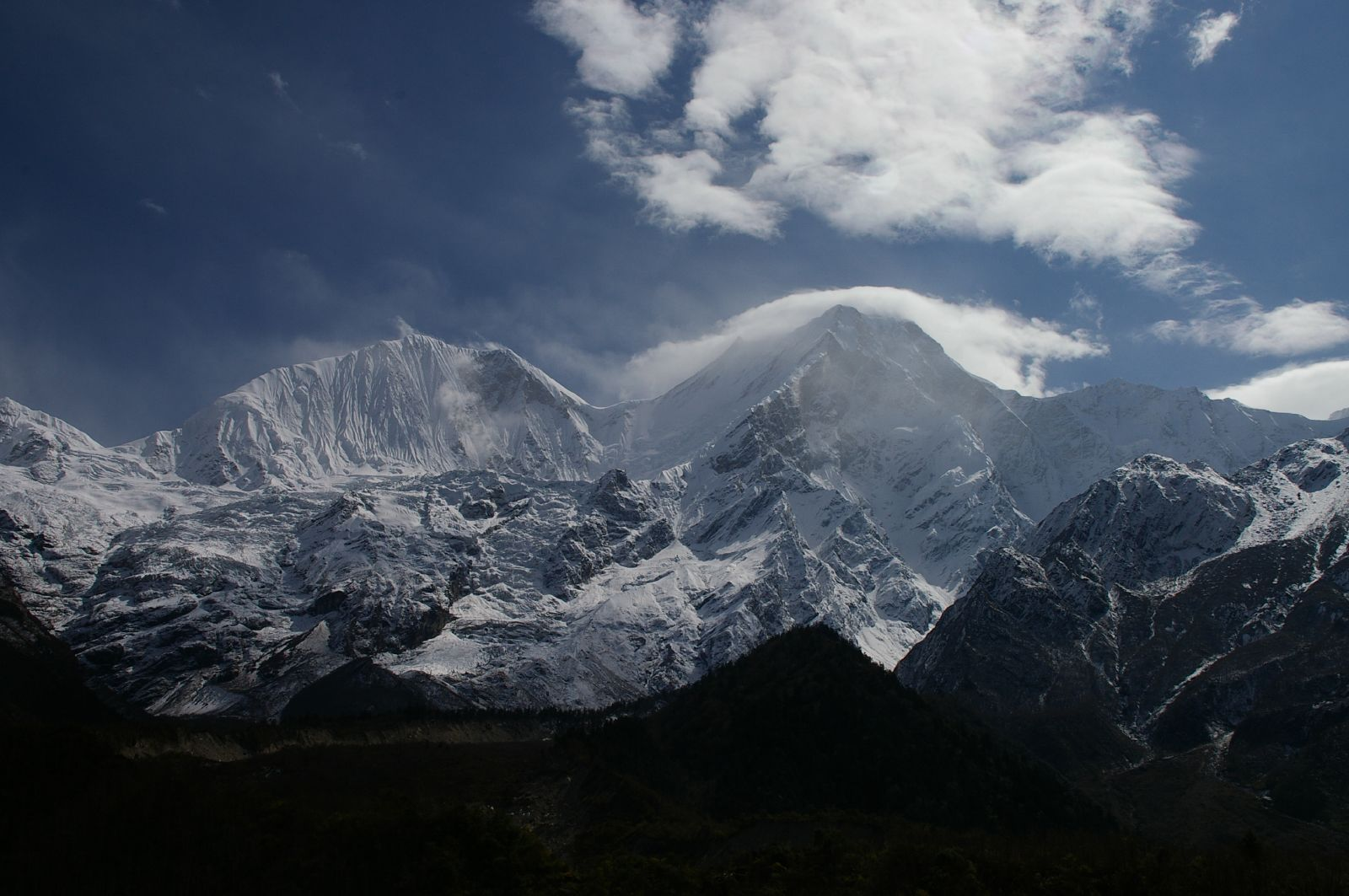 Manaslu, Nepal, Himalaya